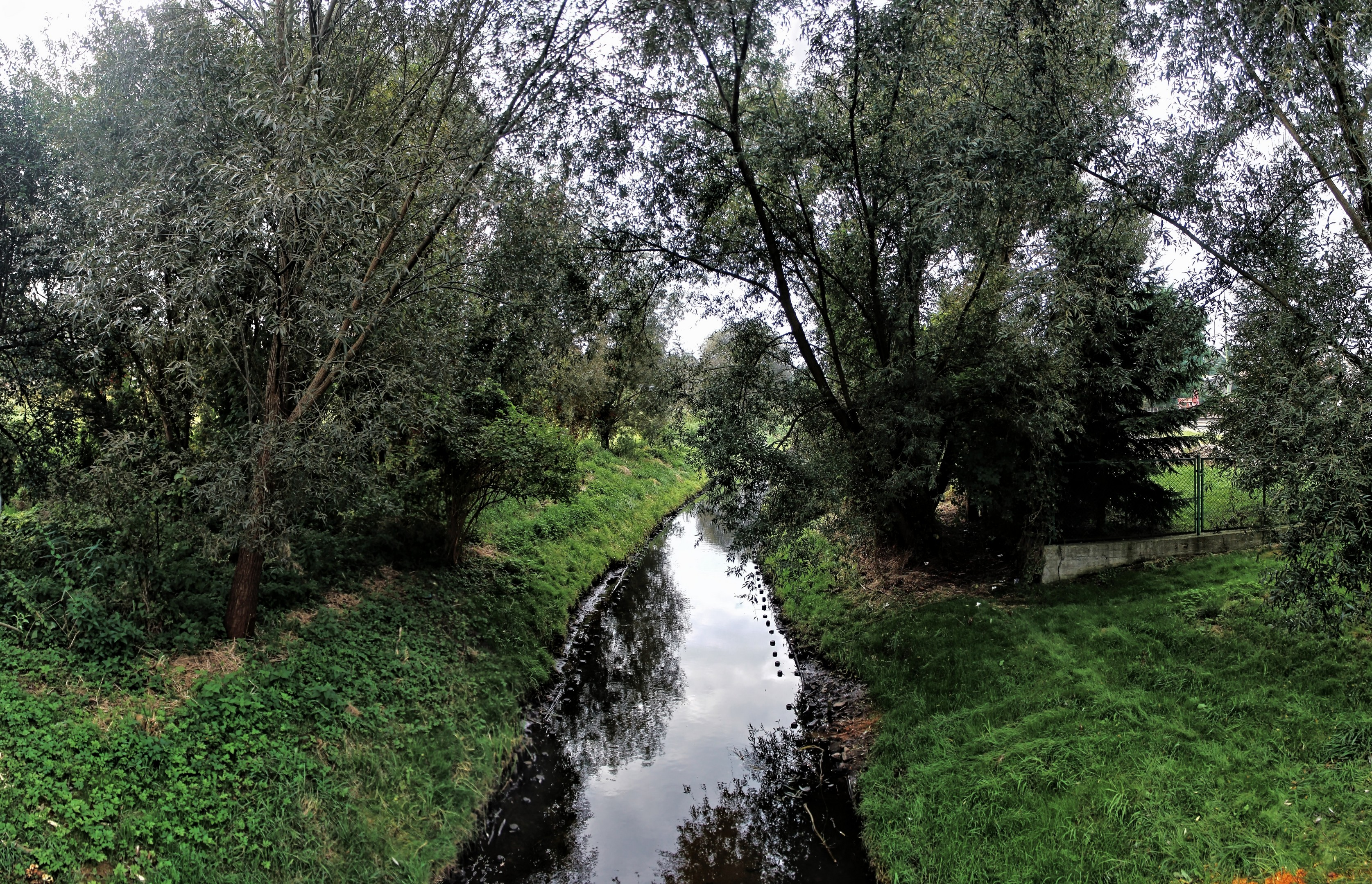 Sława, Krótka street, Czernica river